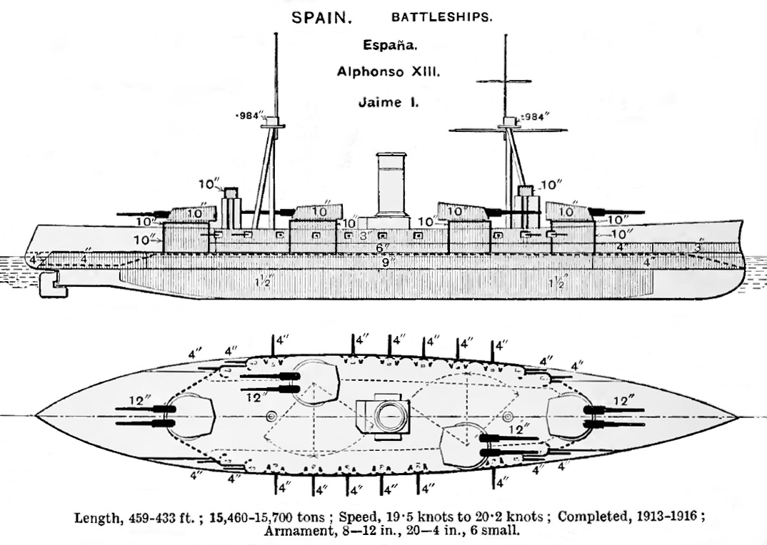 Diagrams depicting right elevation and deck plan of España class battleship. Upper diagram depicts armour thickness (shaded areas) in inches. Lower diagram depicts gun sizes in inches.